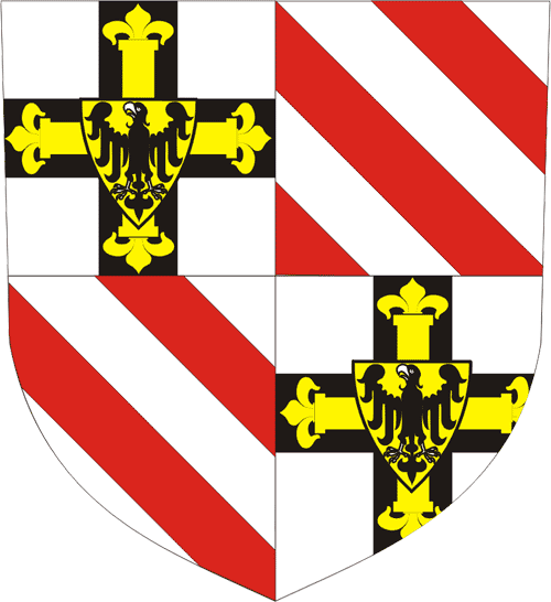 Teutonic Order - Coat of Arms of the Grandmaster Konrad und Ludwig von Erlichshausen